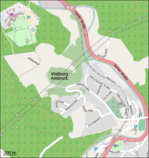 Map of Hagen-Dahl, Germany